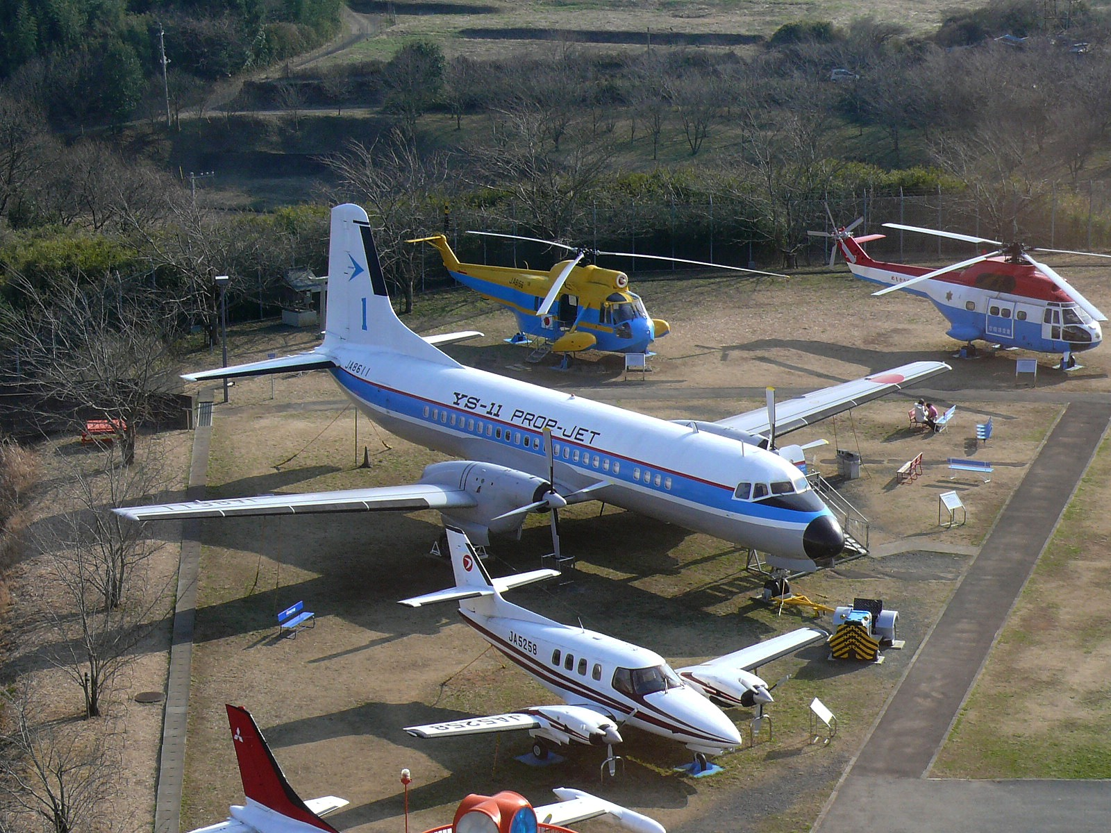 YS-11 prototype JA8611(Japan, Chiba, Museum of Aeronautical Sciences).